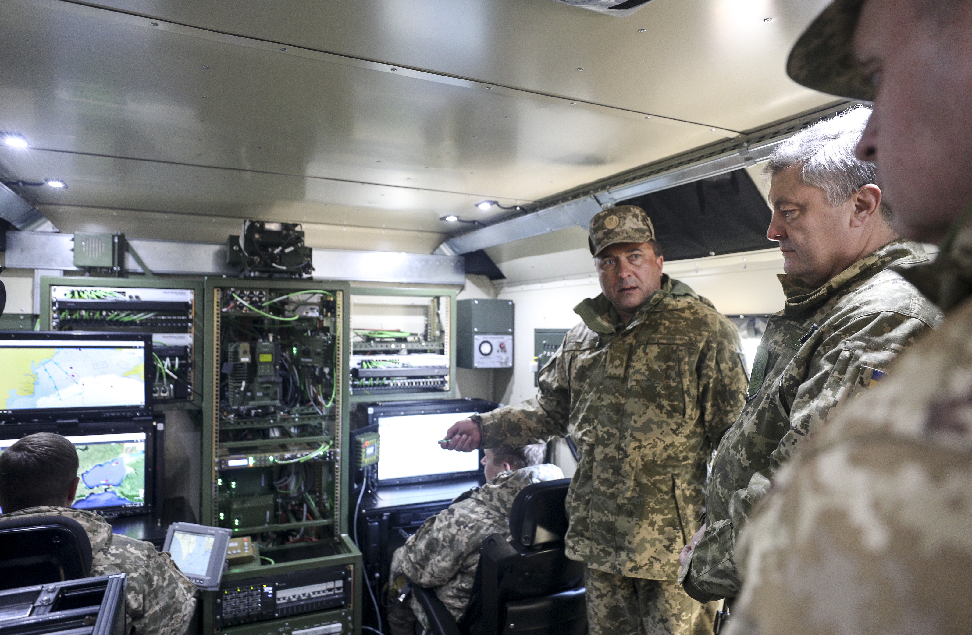 Neptune (cruise missile)